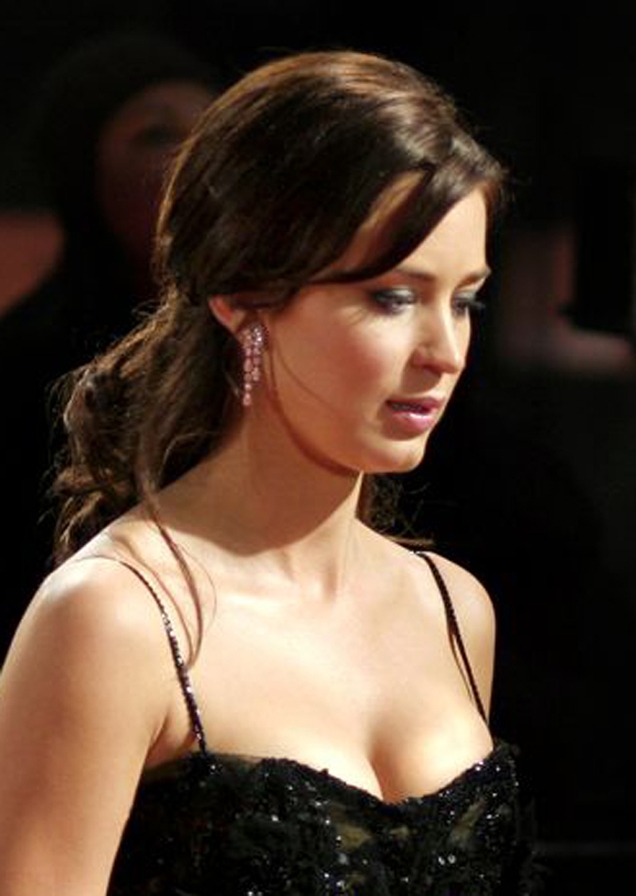 Emily Blunt at the Orange British Academy Film Awards in London's Royal Opera House